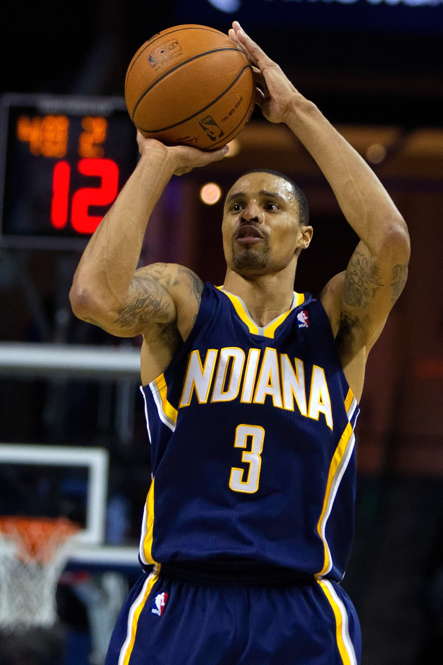 Mar 5, 2014; Charlotte, NC, USA; Indiana Pacers point guard George Hill (3) shoots the ball during the second half against the Charlotte Bobcats at Time Warner Cable Arena. Bobcats won 109-87. Mandatory Credit: Joshua S. Kelly-USA TODAY Sports